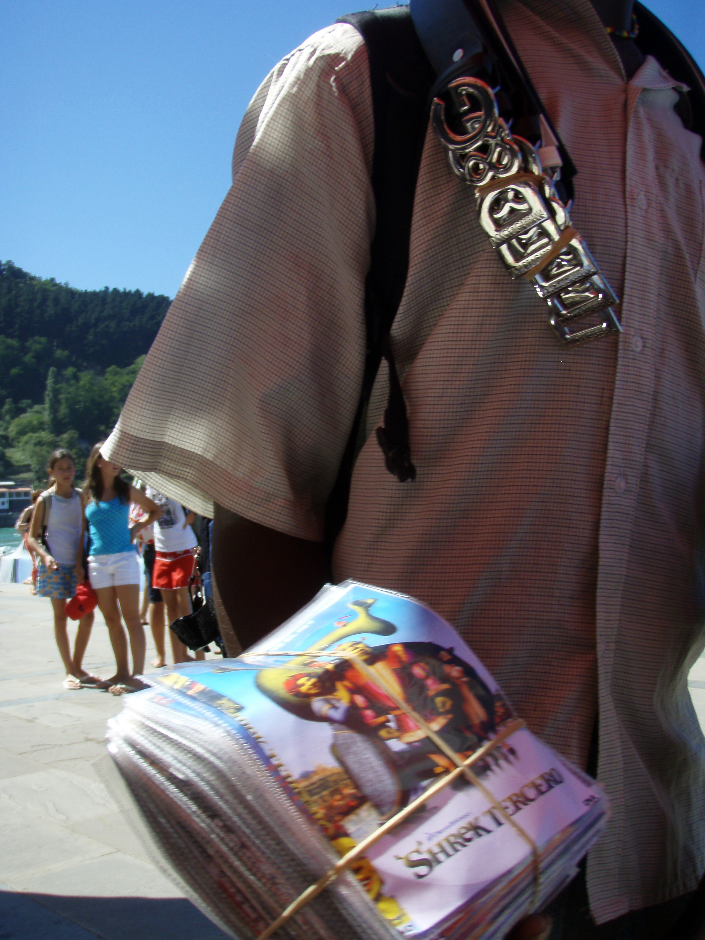 Intellectual piracy - "Shrek III" movie offered on the city market in Zarautz (Basque Country, Spain). Also fake Dolce&Gabbana objects.